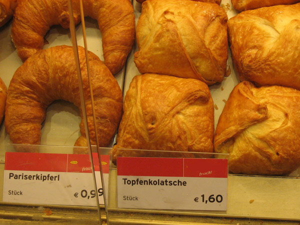 Examples for differing vocabulary in Austrian Standard German Parisekipferl = Croissant Croissants are called "Kipferl" and "Kolatschen" is a type of filled pastry, bearing a name that originates from Czech and Slovak "koláče". See Kolache.